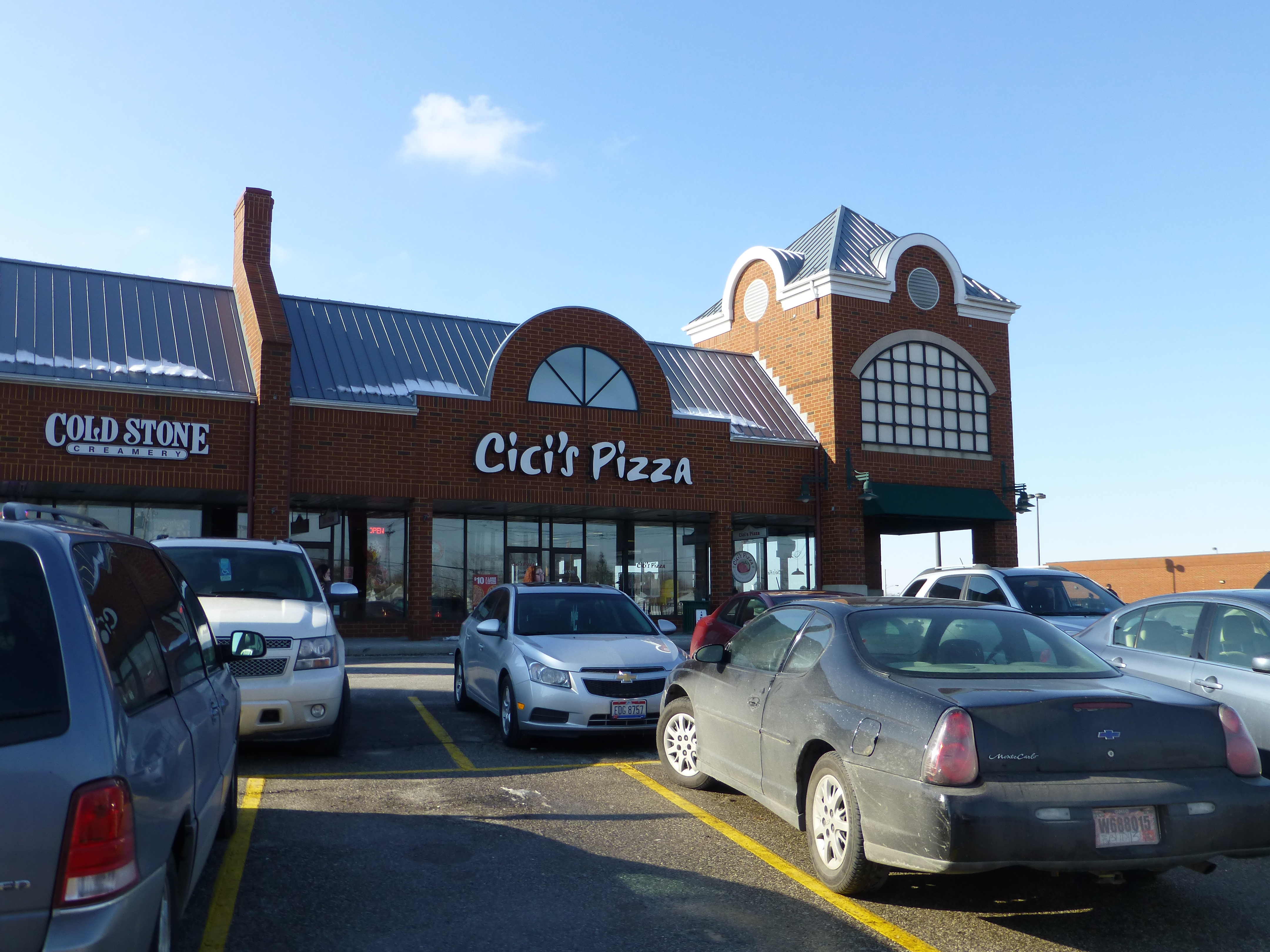 A CiCi's Pizza restaurant in Brooklyn, Ohio.